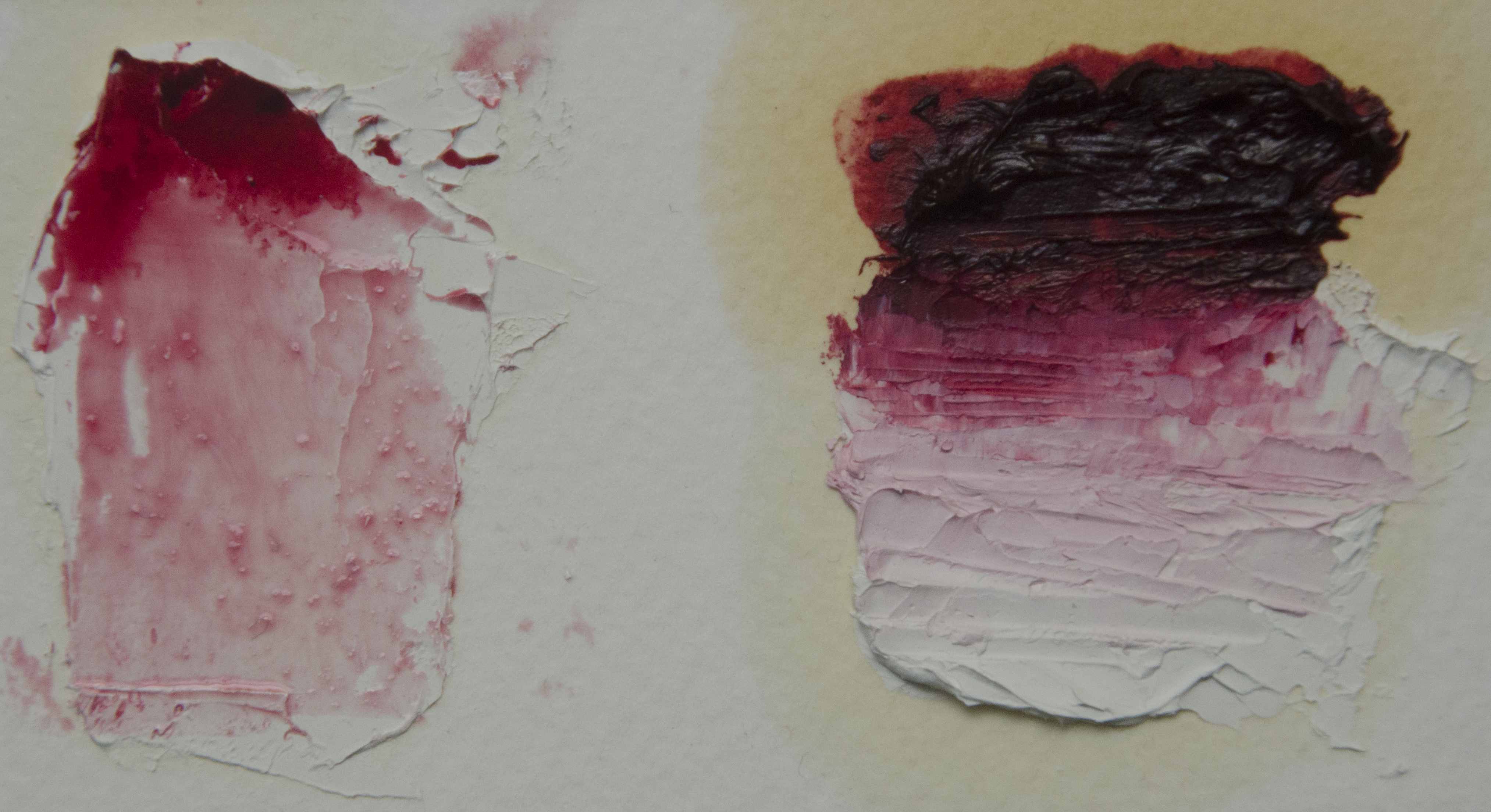 Alizarin in oil; a standoil glaze on zinc white on the left, the mass tone on the right